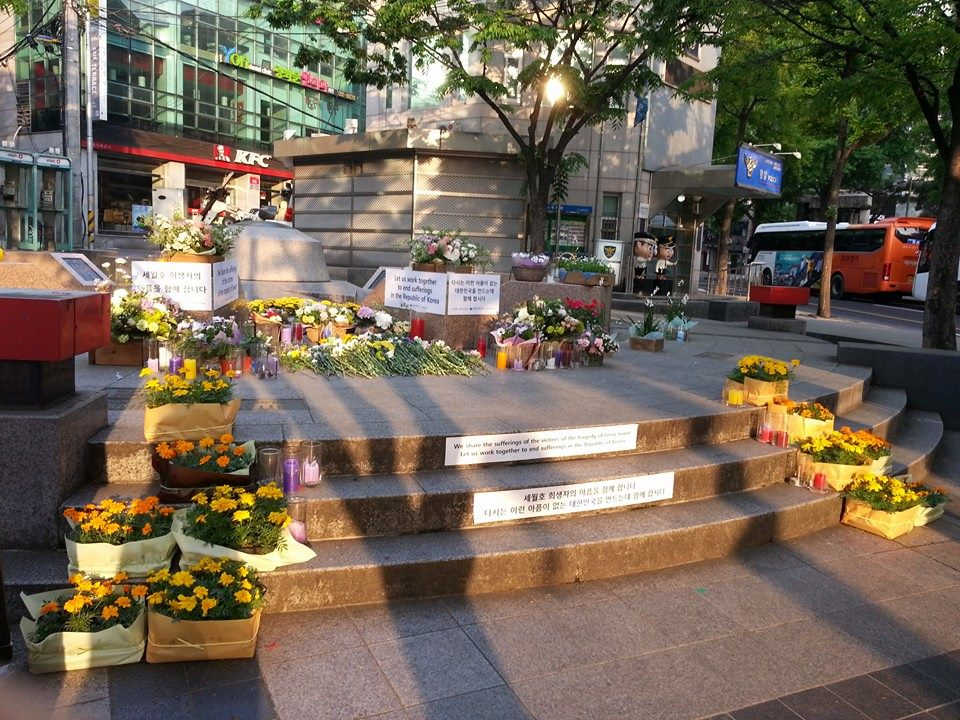 Flowers and candles at a memorial for the victims of the sinking of the Sewol.